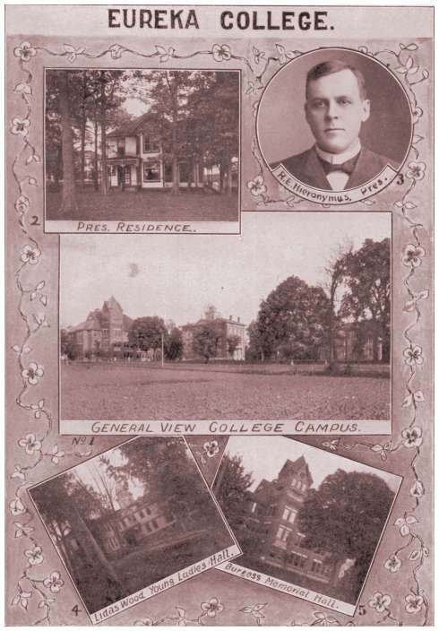 Eureka College, Eureka, Illinois